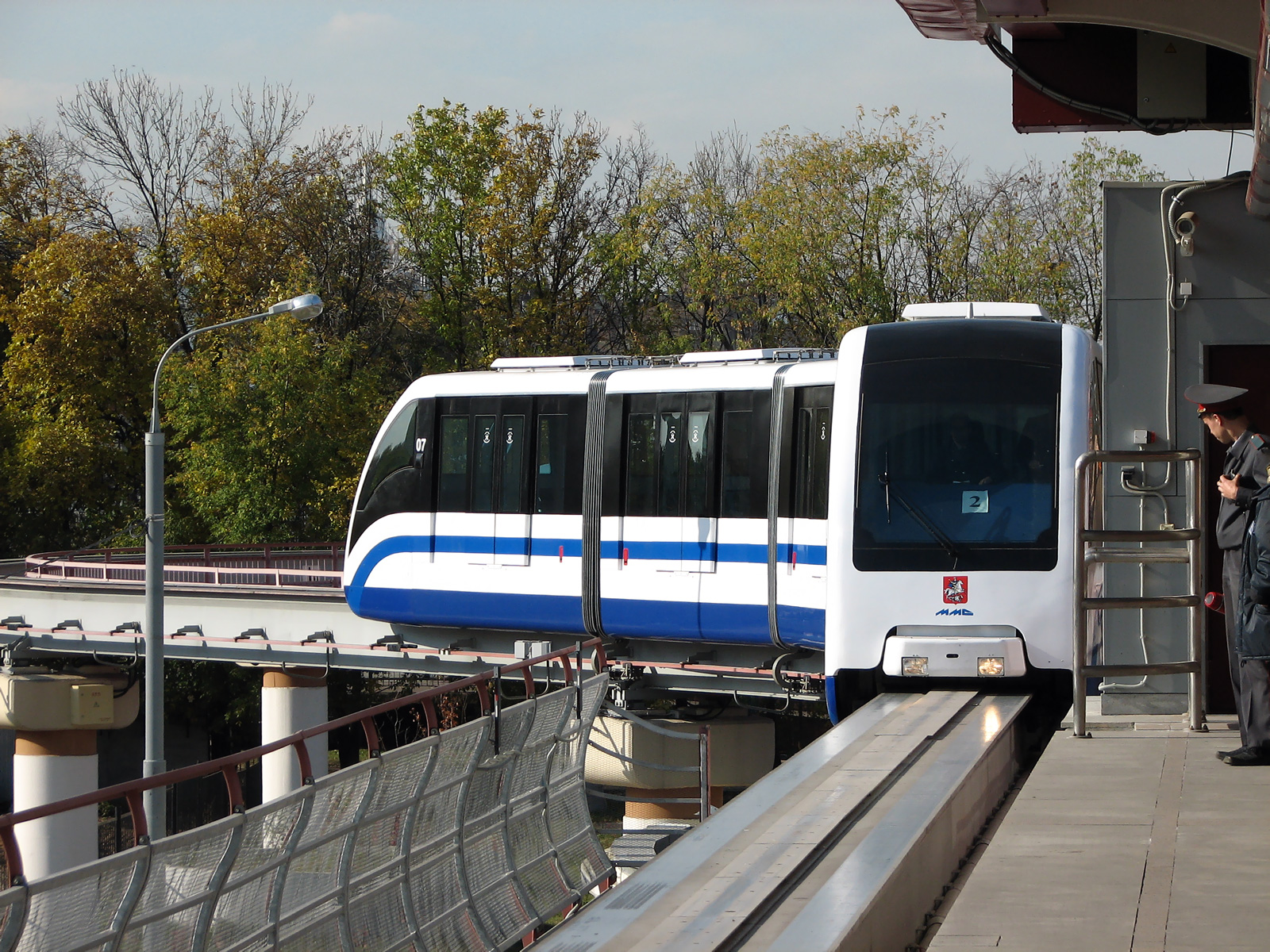 Station Timiryazevskaya of Moscow monorail transit system. Arrival of the train.